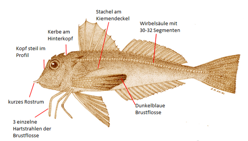 Merkmale Großschuppen-Knurrhahn